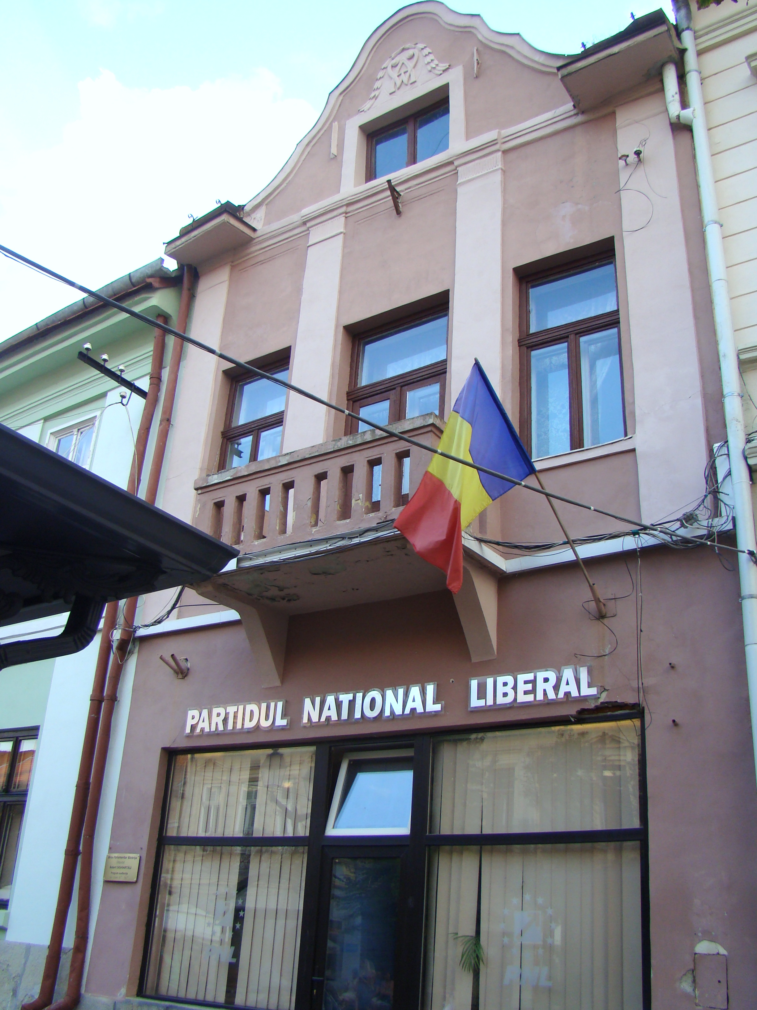 House, historic monument, in Bistrița, Liviu Rebreanu street 25